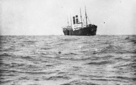 AWM Caption: The troopship Southland, carrrying Headquarters, 2nd Division, AIF, Headquarters, 6th Infantry Brigade, 21st Infantry Battalion and one Company of the 23rd Infantry Battalion and details, which was torpedoed at 9.51 am in the Agean Sea, near the Island of Agistrati. Two life boats are leaving the side of the sinking vessel (centre rear).